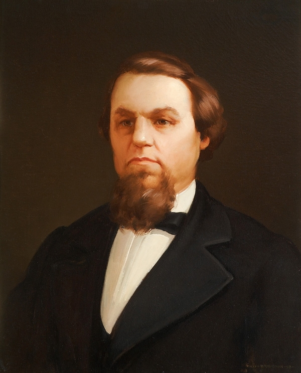 Portrait of William Felix Brantley by George Bridgman, 1898, The Old Capitol Museum, 3rd floor, Senate gallery, East Wall, Mississippi Department of Archives and History